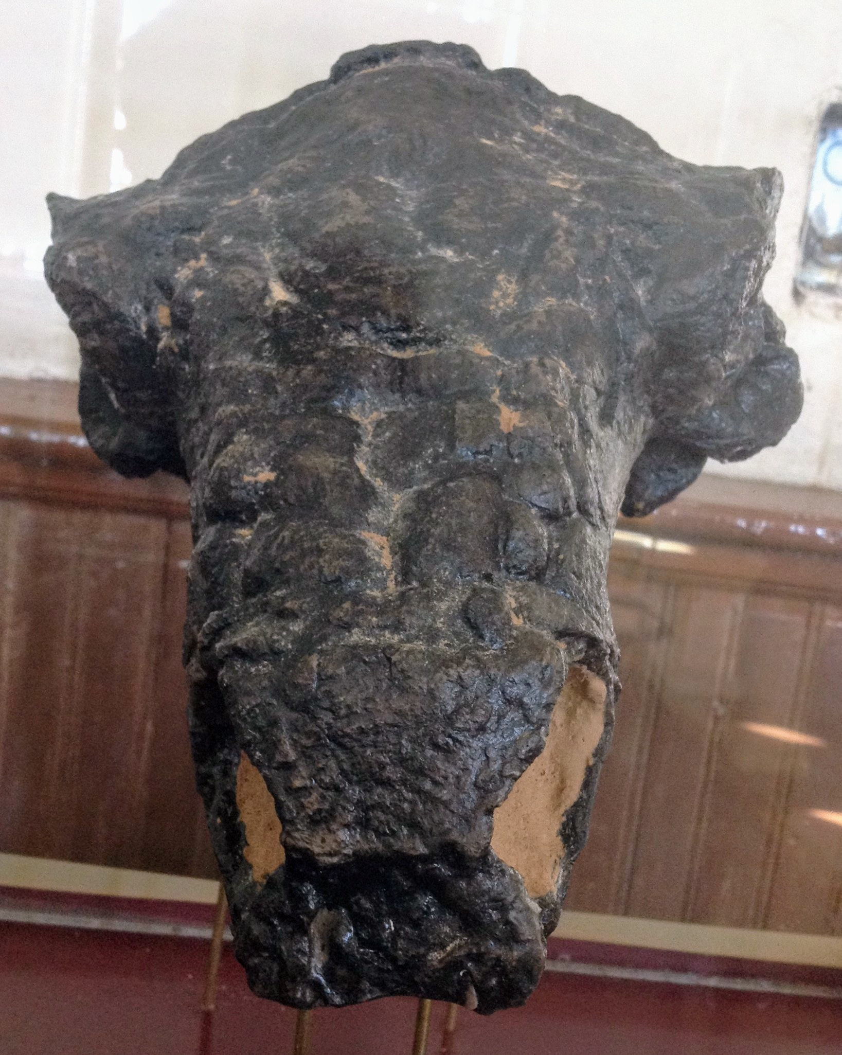 Pawpawsaurus skull replica in the Museo del Mamut Chihuahua.